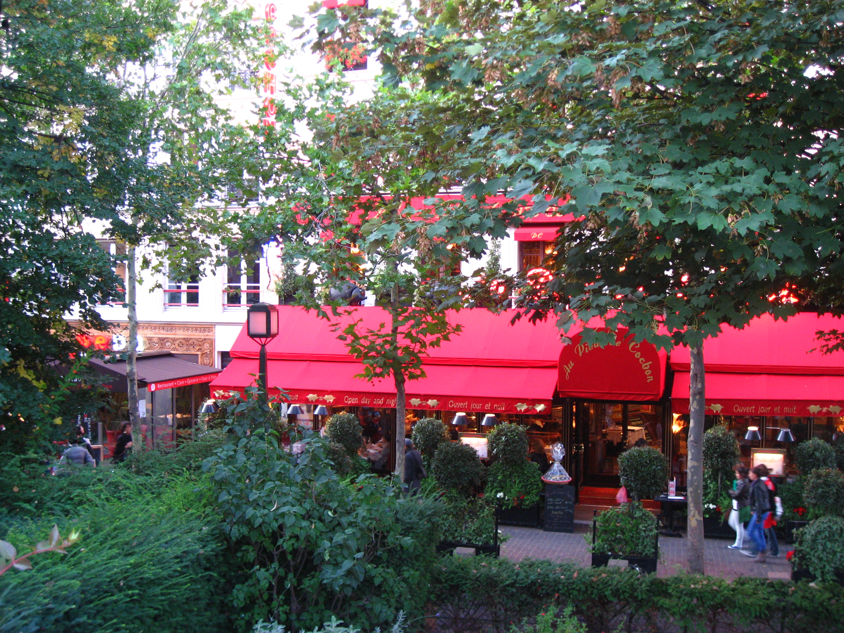 "Au pied de cochon" restaurant, 6 rue Coquillière, 75001 Paris, France.